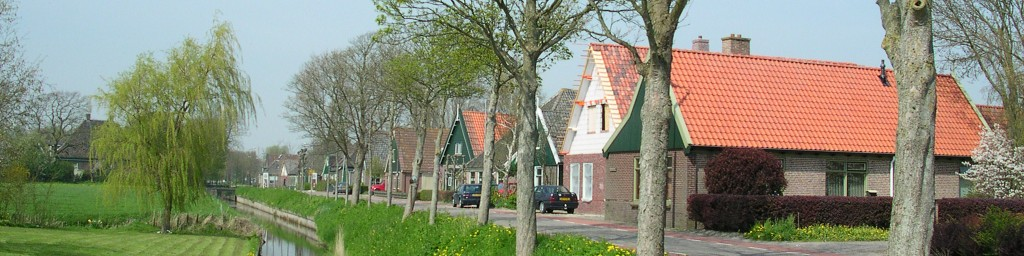 The Town of Abbekerk.